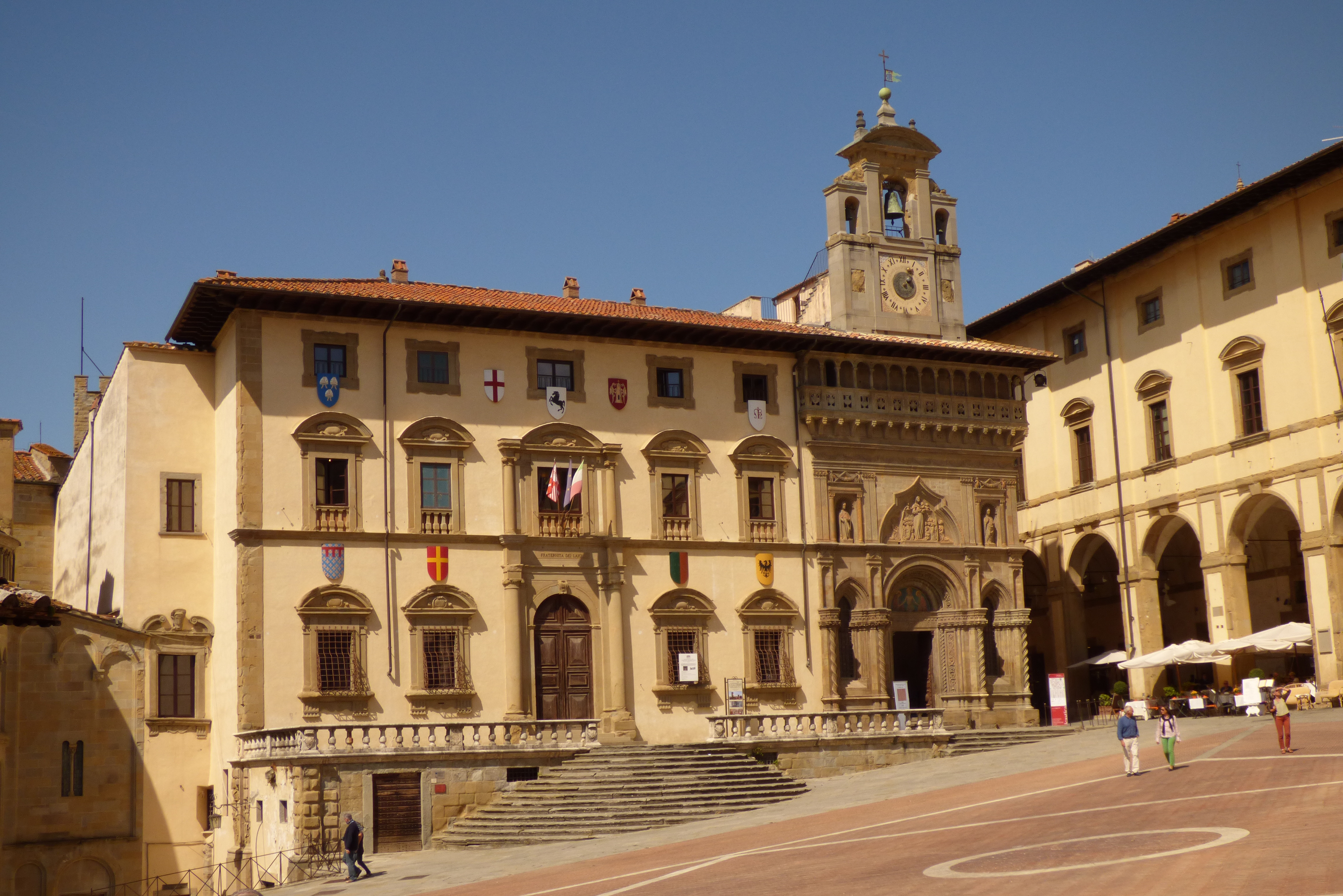 Lay Fraternity Palace in Arezzo, Italy